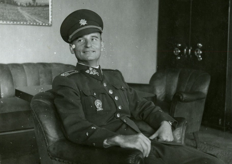 Ján Golian (January 26, 1906, Dombóvár, Hungary – 1945, Flossenbürg concentration camp, Germany)